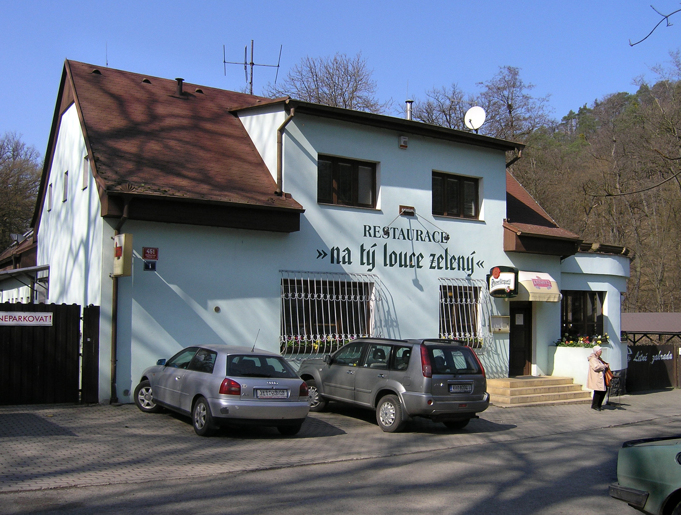 Na tý louce zelený place at Kunratický forest, Prague